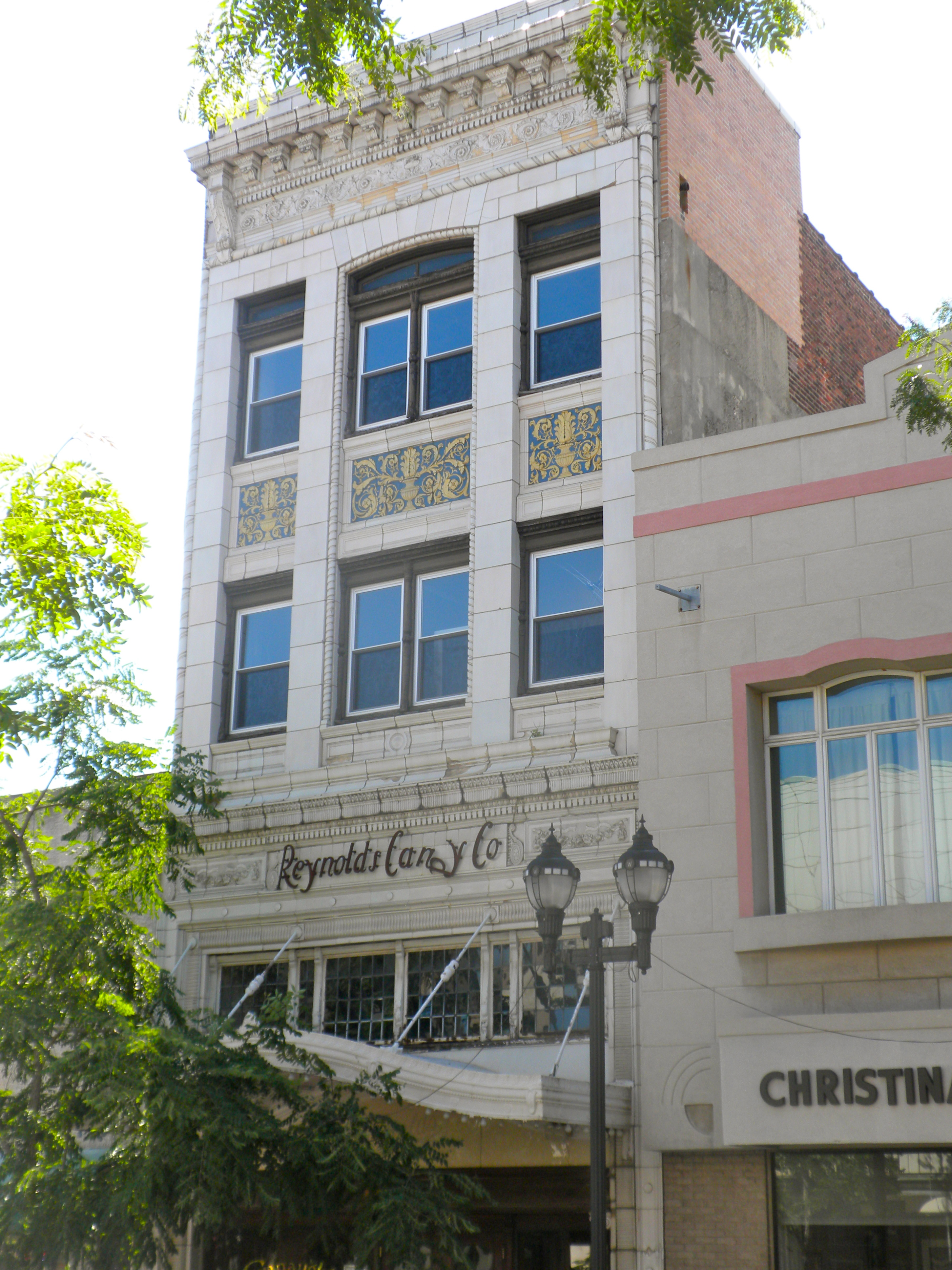 Reynold's Candy Company Building on the NRHP since January 30, 1985. At 703 N. Market St., Wilmington, DelawareCavanaugh's Restaurant